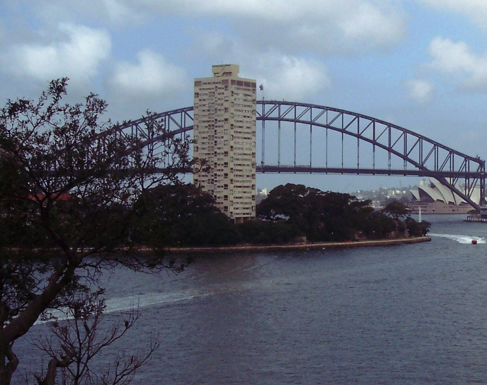 Category:Images of Sydney Category:Images of bridges in Australia